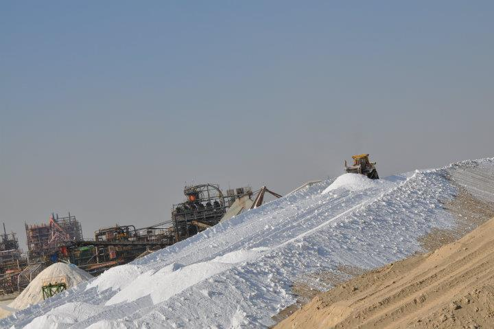 Working at the Dead Sea